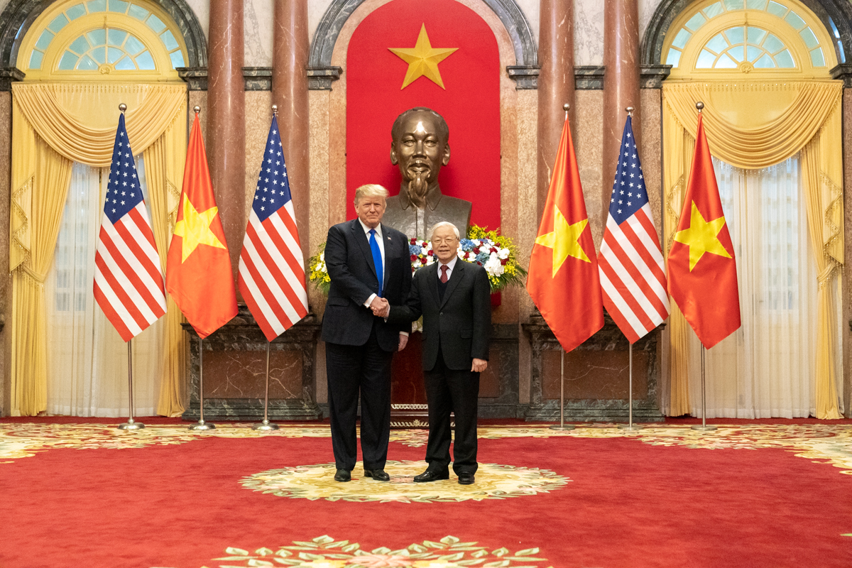 President Donald J. Trump and Nguyen Phu Trong, General Secretary of the Communist Party and President of the Socialist Republic of Vietnam, participate in a photo opportunity in the Mirror Room of the Presidential Palace Wednesday, Feb. 27, 2019, in Hanoi. (Official White House Photo by Shealah Craighead)